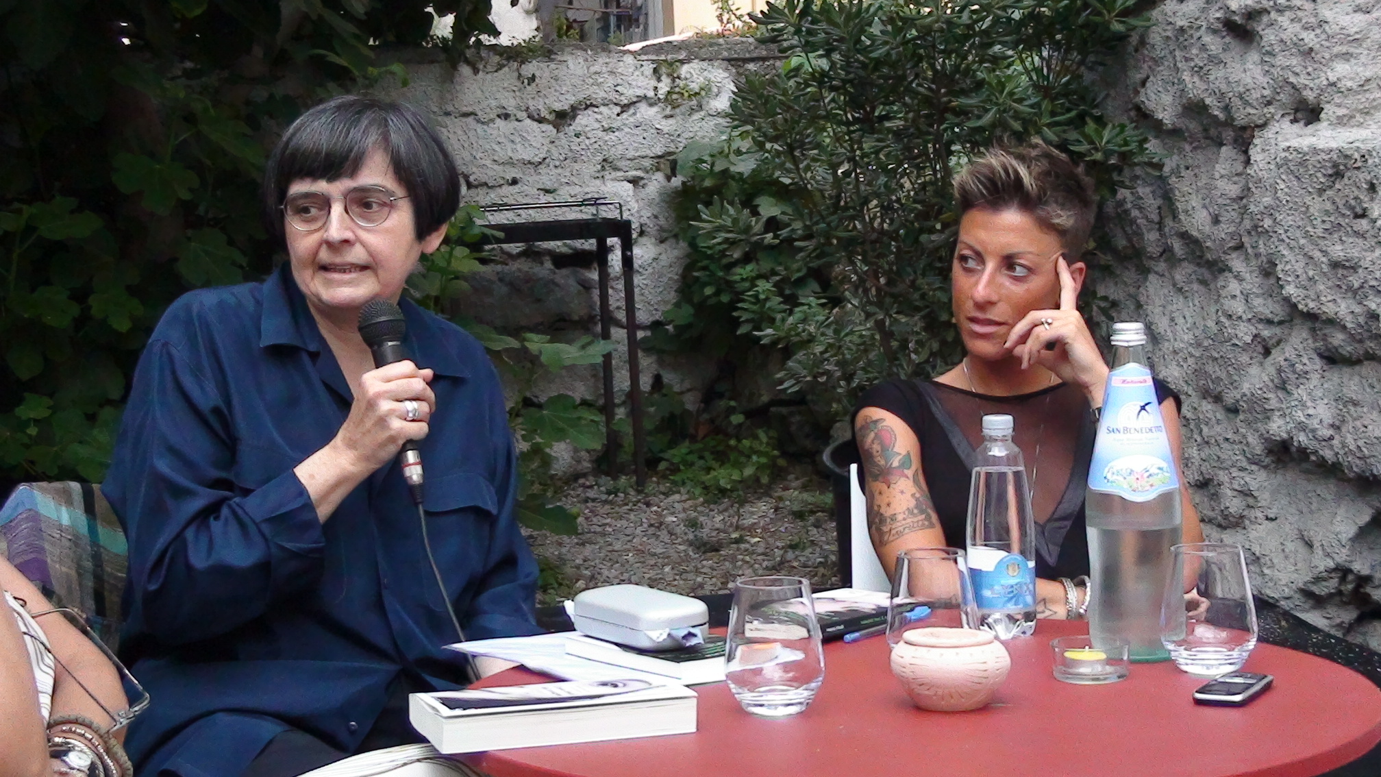 Margherita Giacobino and Maura Chiulli, lesbian writers, at Sicilia pride Palermo 2010